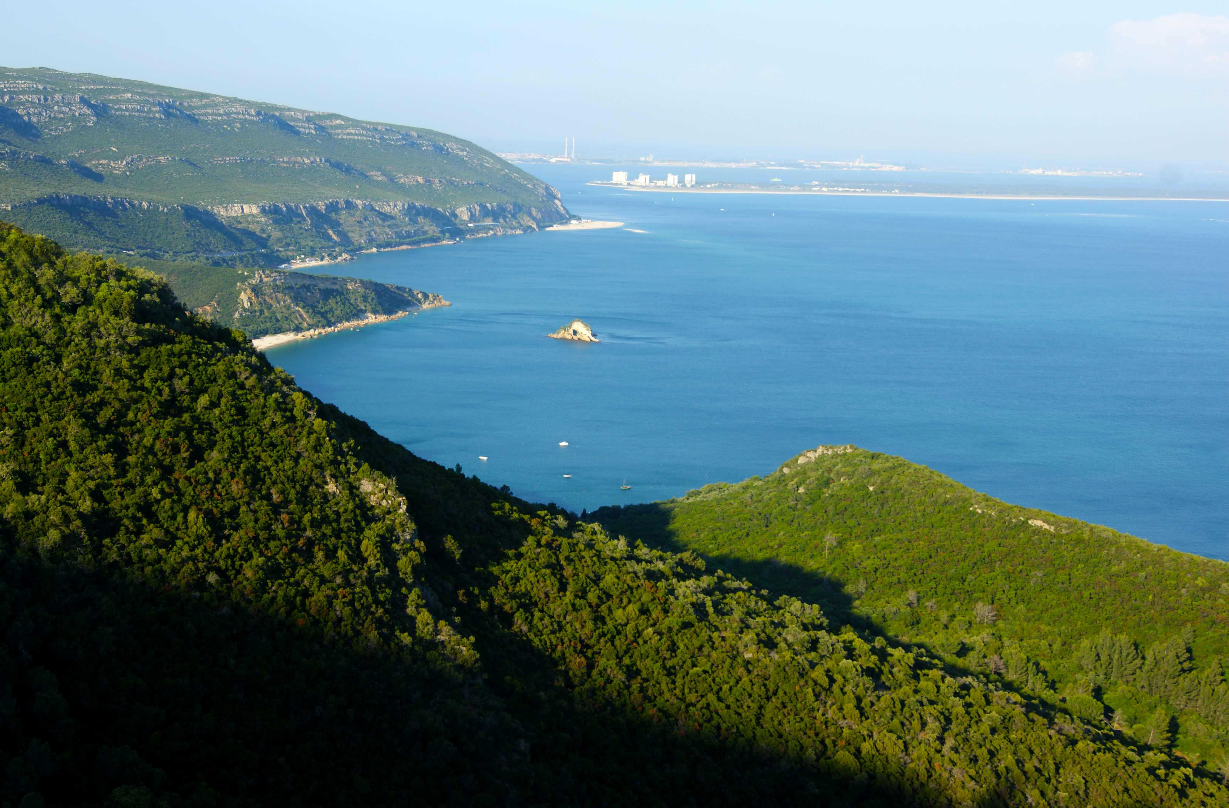 Parque Natural da Arrábia com vista para Tróia e Península de Setúbal This is a photography of a Site of Community Importance in Portugal with the ID: PTCON0010. Natura2000 entry, EEA entry